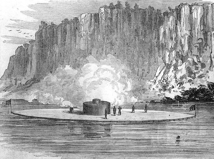 USS Passaic (1862-1899) Line engraving published in "Harper's Weekly", 1862, depicting Passaic "trying her large gun at the Palisades", during gunnery trials in the Hudson River on 15 November 1862.